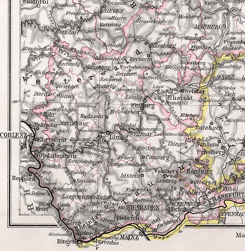 Detail from a map of Hesse.